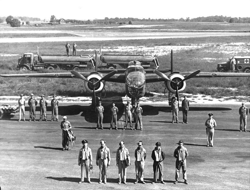 Lt. Peddy and crew. This image shows how many people were required to keep a B-25 Mitchell flying.